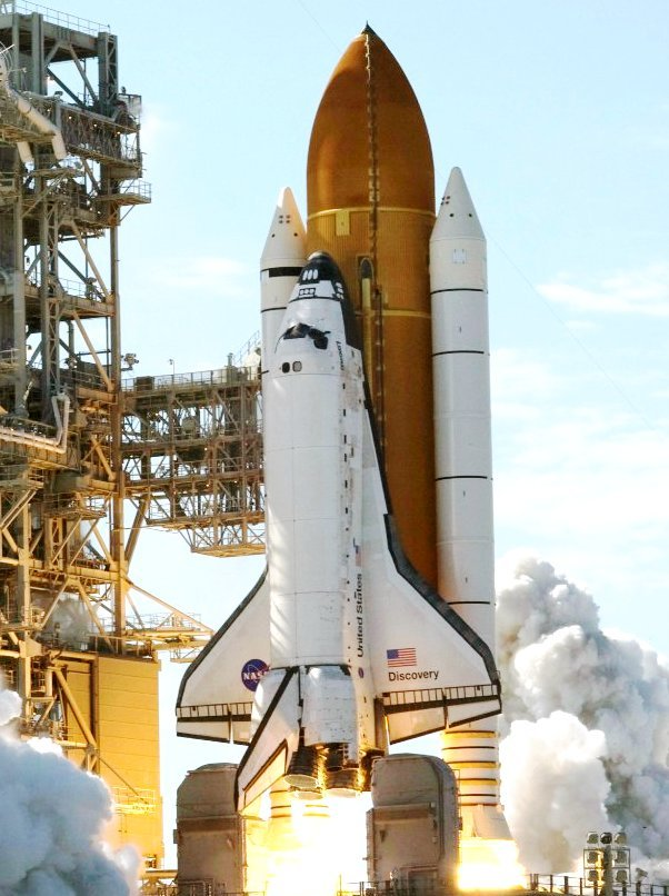 Smoke begins pouring out of the flame trench on Launch Pad 39A at NASA's Kennedy Space Center as space shuttle Discovery lifts off on its STS-124 mission to the International Space Station. Launch was on time at 5:02 p.m. EDT. At left is the fixed service structure with the 80-foot lightning mast on top. Discovery is making its 35th flight. The STS-124 mission is the 26th in the assembly of the space station.